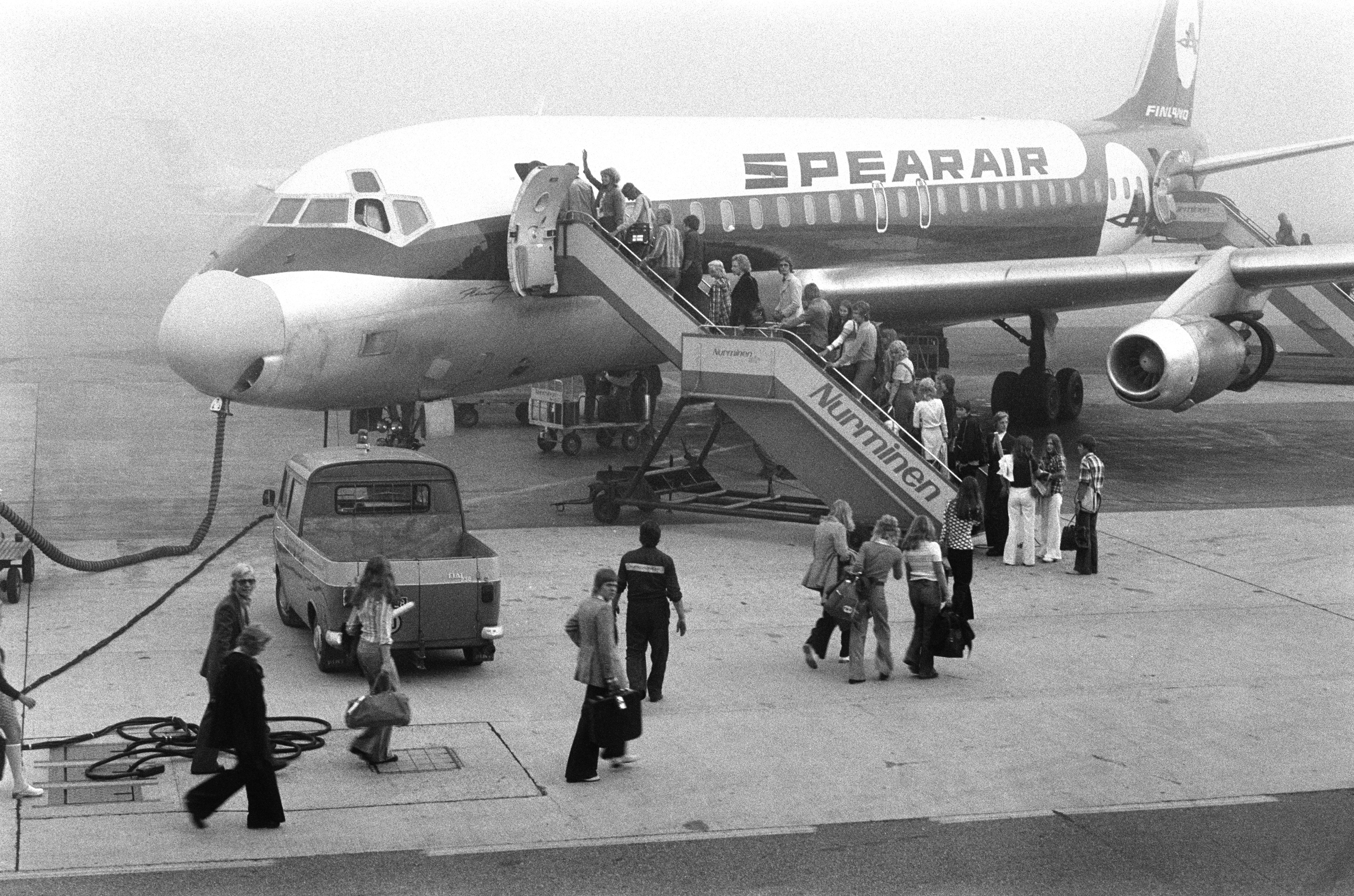 Exchange students heading for the United States boarding a Douglas DC-8-32 aircraft (OH-SOA or OH-SOB) of Spear Air at foggy Helsinki Airport in autumn 1973.